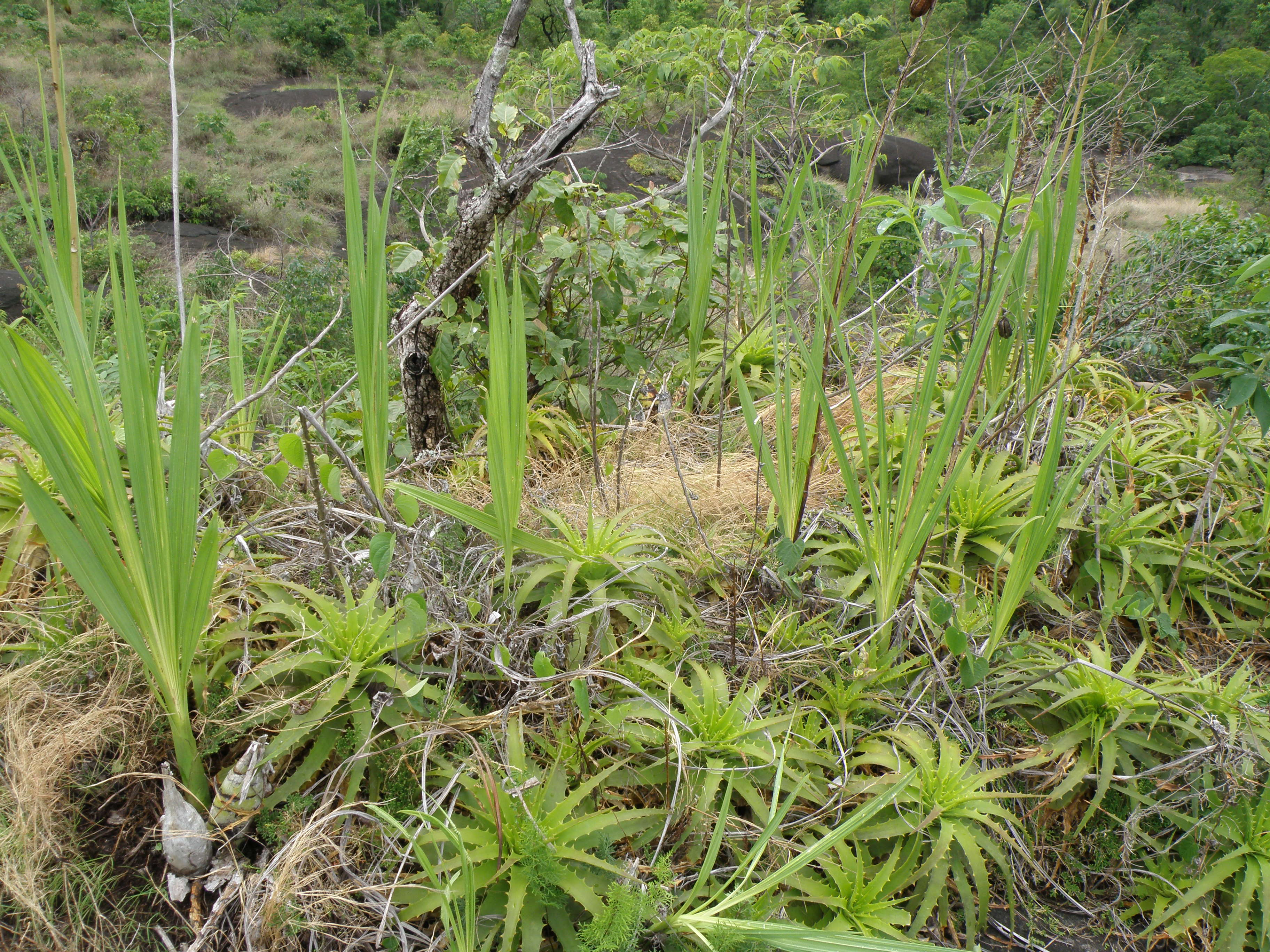 Cyrtopodium virescens in sito